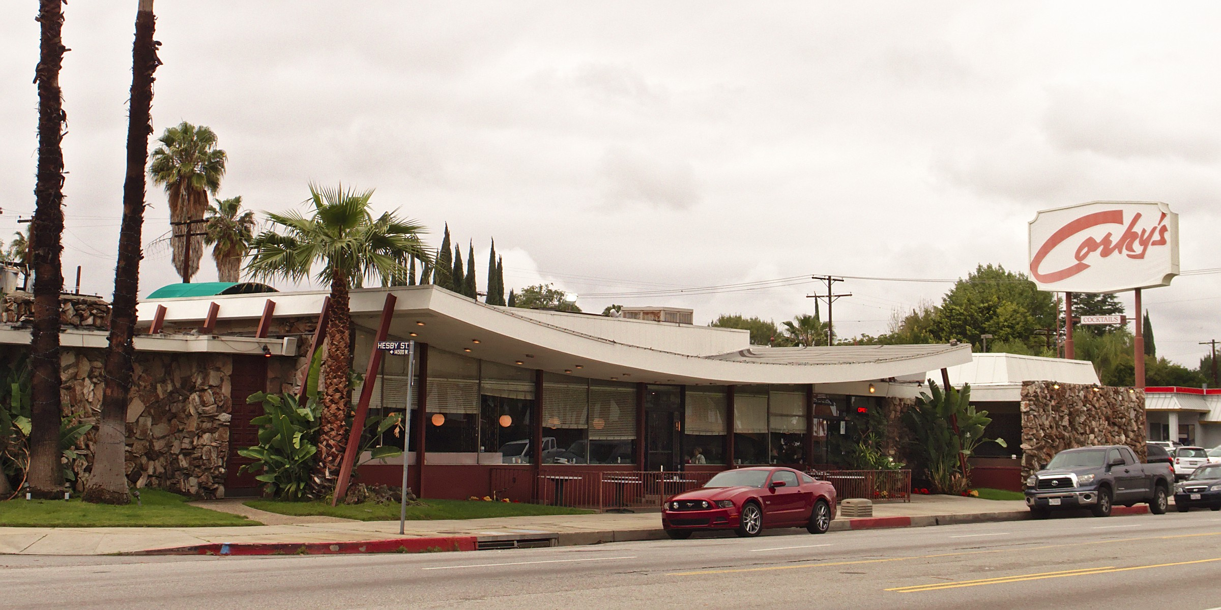 Corky's restaurant on Van Nuys Boulevard in Sherman Oaks, Los Angeles, California, viewed from the southeast. It was designed by Armet & Davis and built in 1958.